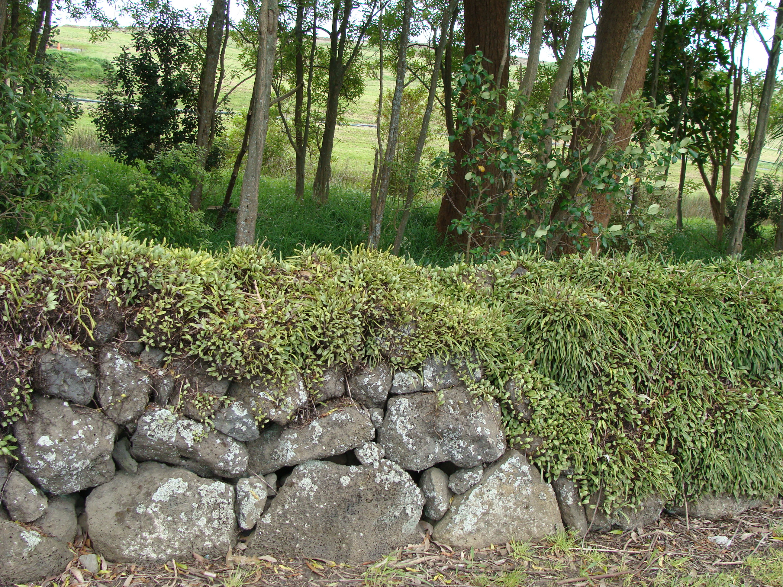 Greenmount landfill, former site of Green Hill volcano, Auckland, New Zealand.